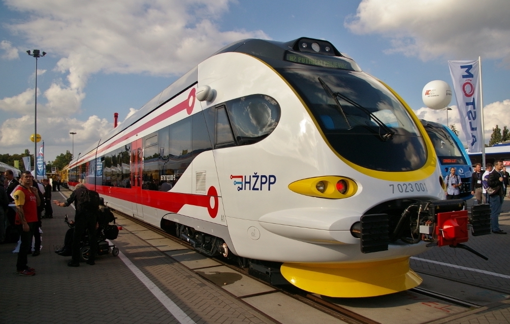 InnoTrans 2016 in Berlin: Vom kroatischen Hersteller Koncar Electrical Industry Inc. kommt dieser mehrteilige Niederflurzug, den es als Elektro- oder Dieseltriebzug gibt. Einsatzgebiet ist der Regionalverkehr und kann von der Inneneinrichtung bis zum Niveau der Ausrüstung den Wünschen angepasst werden. Lieferbar sind zwei- bis fünfteilige Einheiten. Der Zug ist durchgängig ohne Trenntüren oder Treppen begehbar, klimatisiert und verfügt über Doppeltüren für den schnellen Ein- und Ausstieg. Die Höchstgeschwindigkeit liegt bei 160 km/h (Diesel 120 km/h). Bei der HZPP ist der Triebzug als Baureihe 7 023 eingereiht.